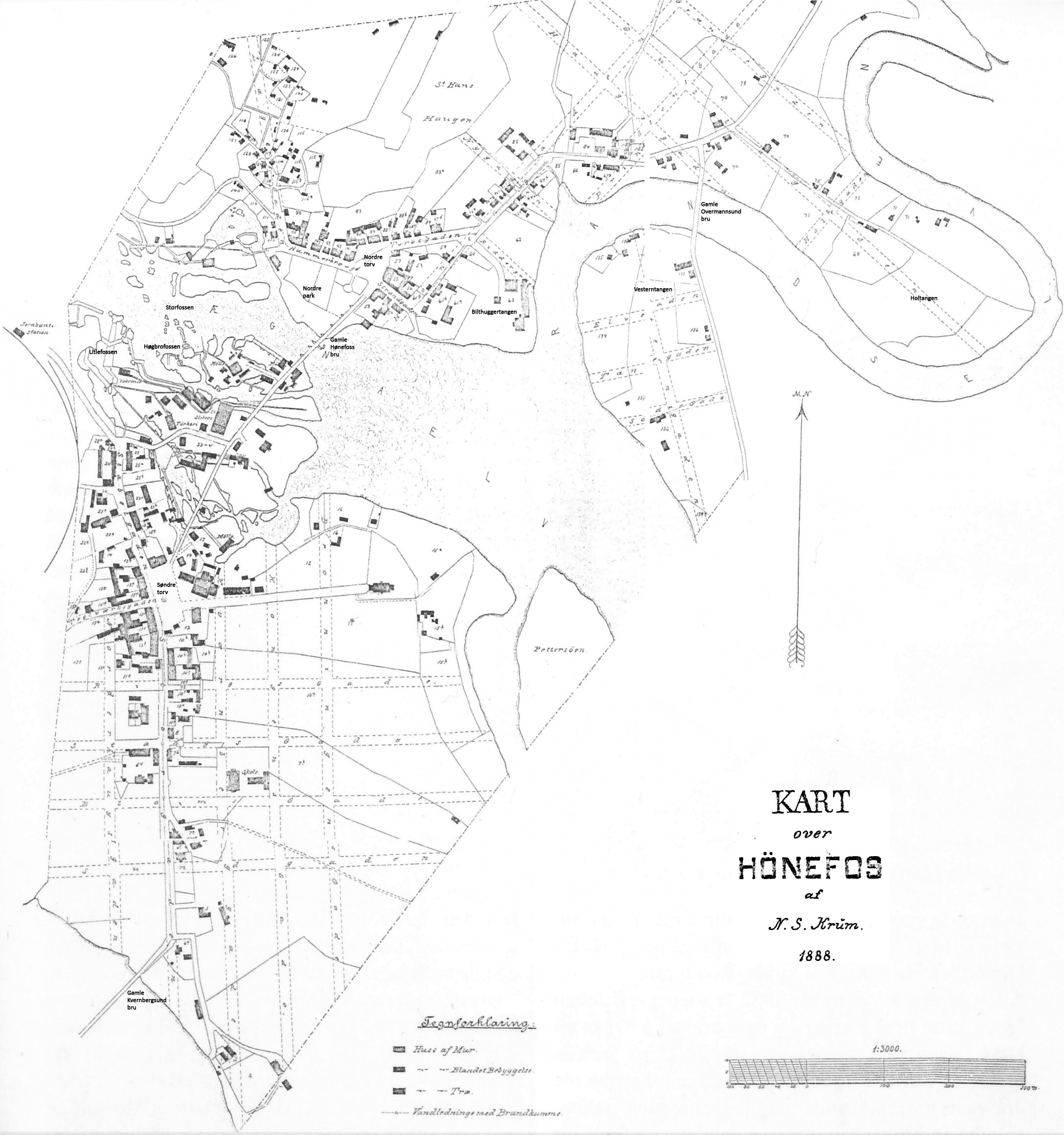 Historisk kart over Hønefoss fra 1888 (Historical map of Hønefoss, Norway, dating from 1888)